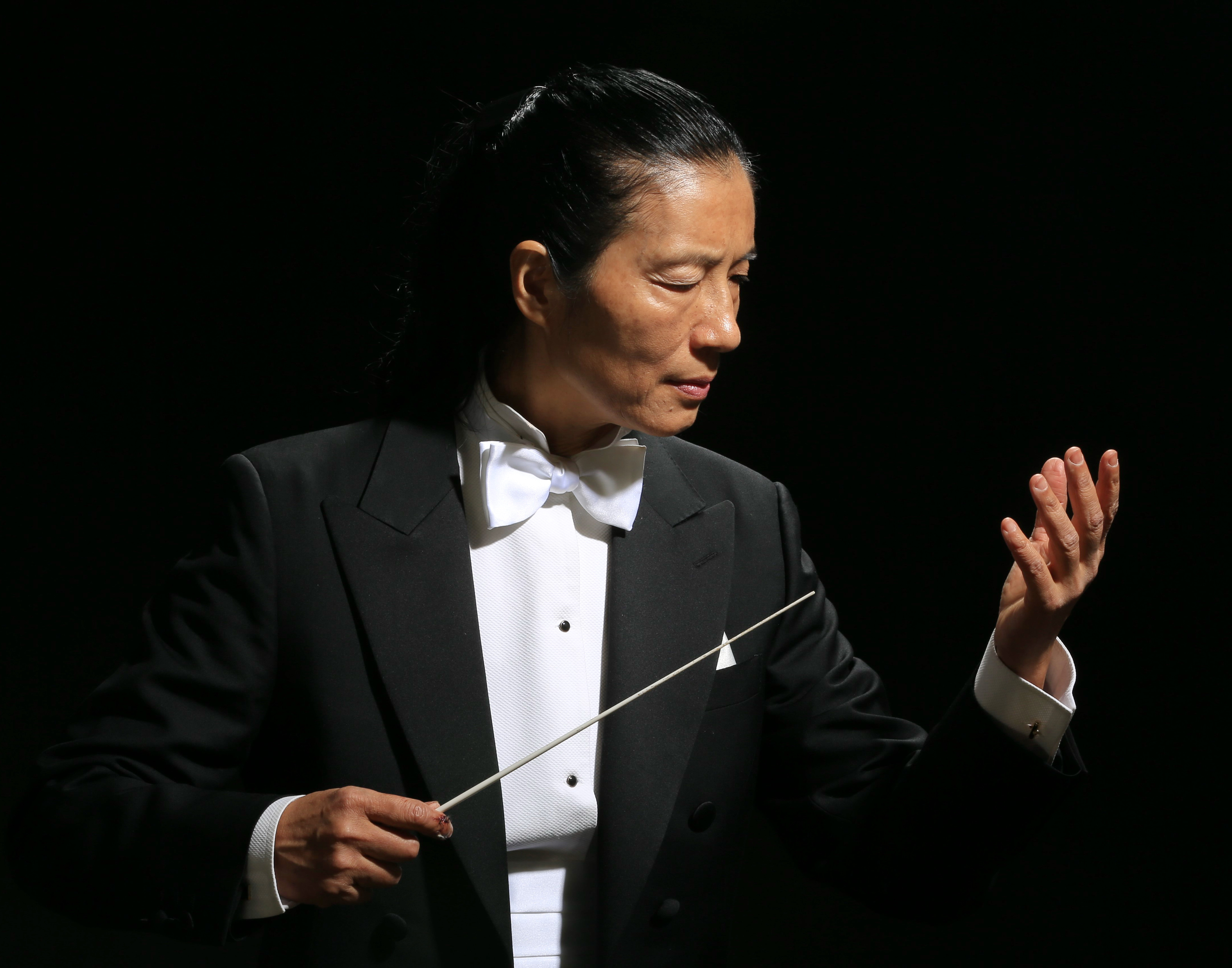 Conductor Pei-Yu Chang (chin. 张培豫)